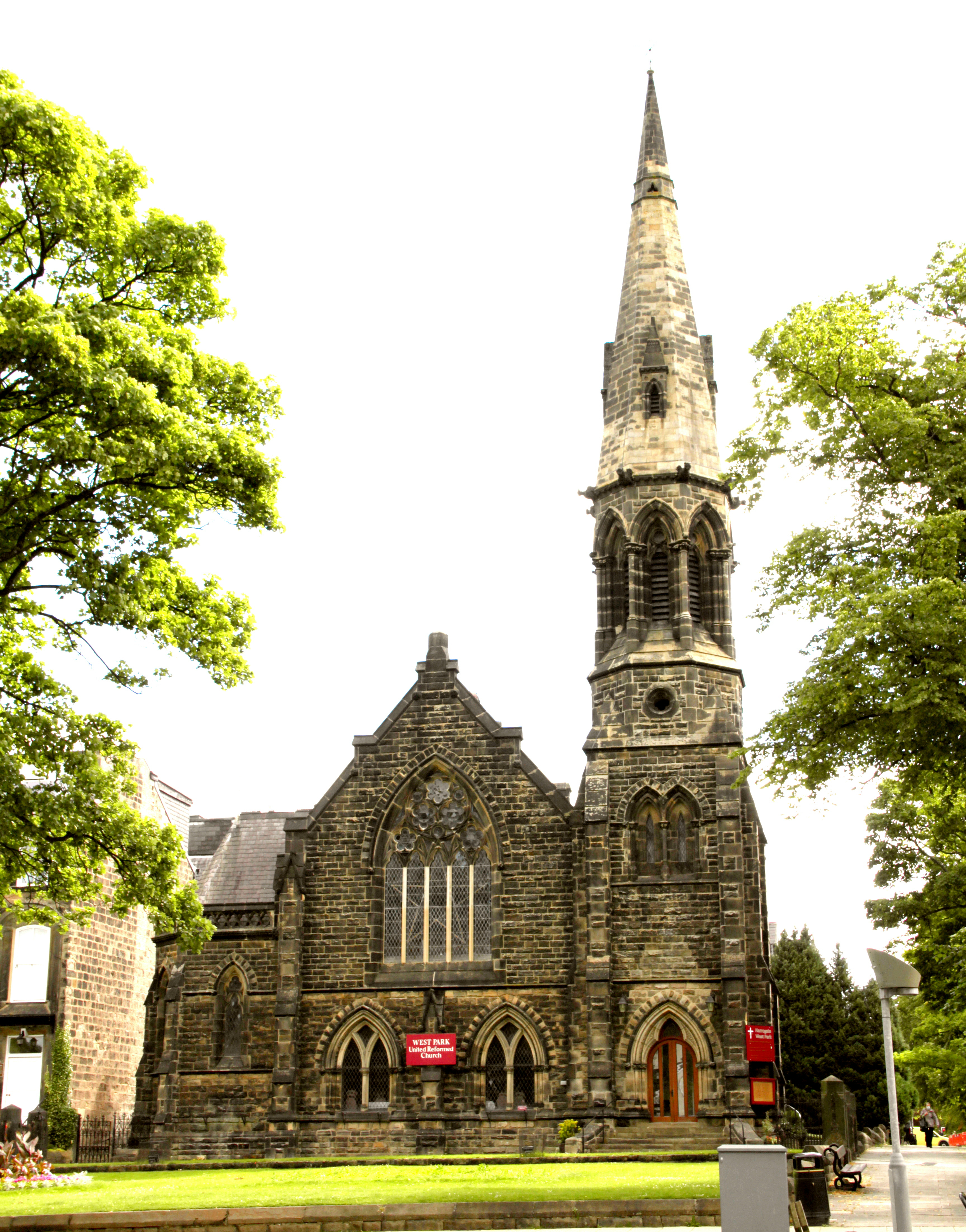 West Park United Reformed Church, Harrogate, England. The building was designed as West Park Congregational Church by Lockwood and Mawson, and completed in 1861-1862. Showing the west elevation of the building viewed from the Stray, across West Park Street.